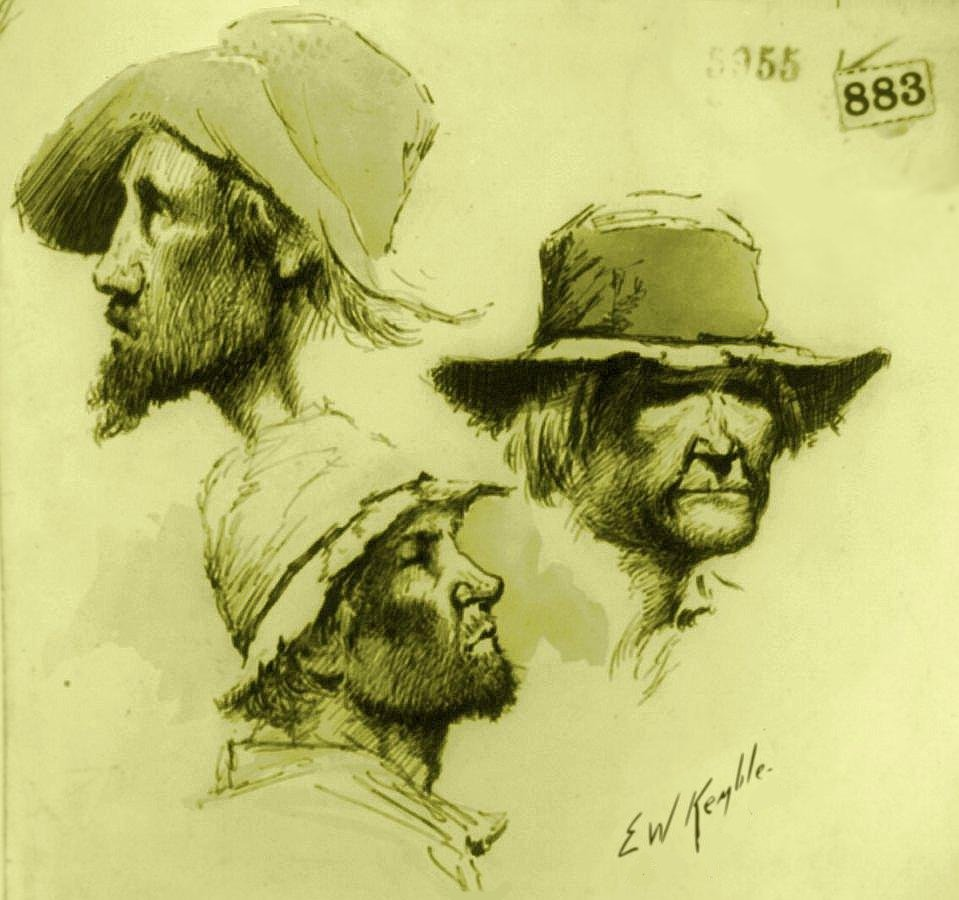 Georgia "cracker" types, circa 1891 by E. W. Kemble (1861-1933). Image has been cropped, digitally colored and Kemble's signature has been added.